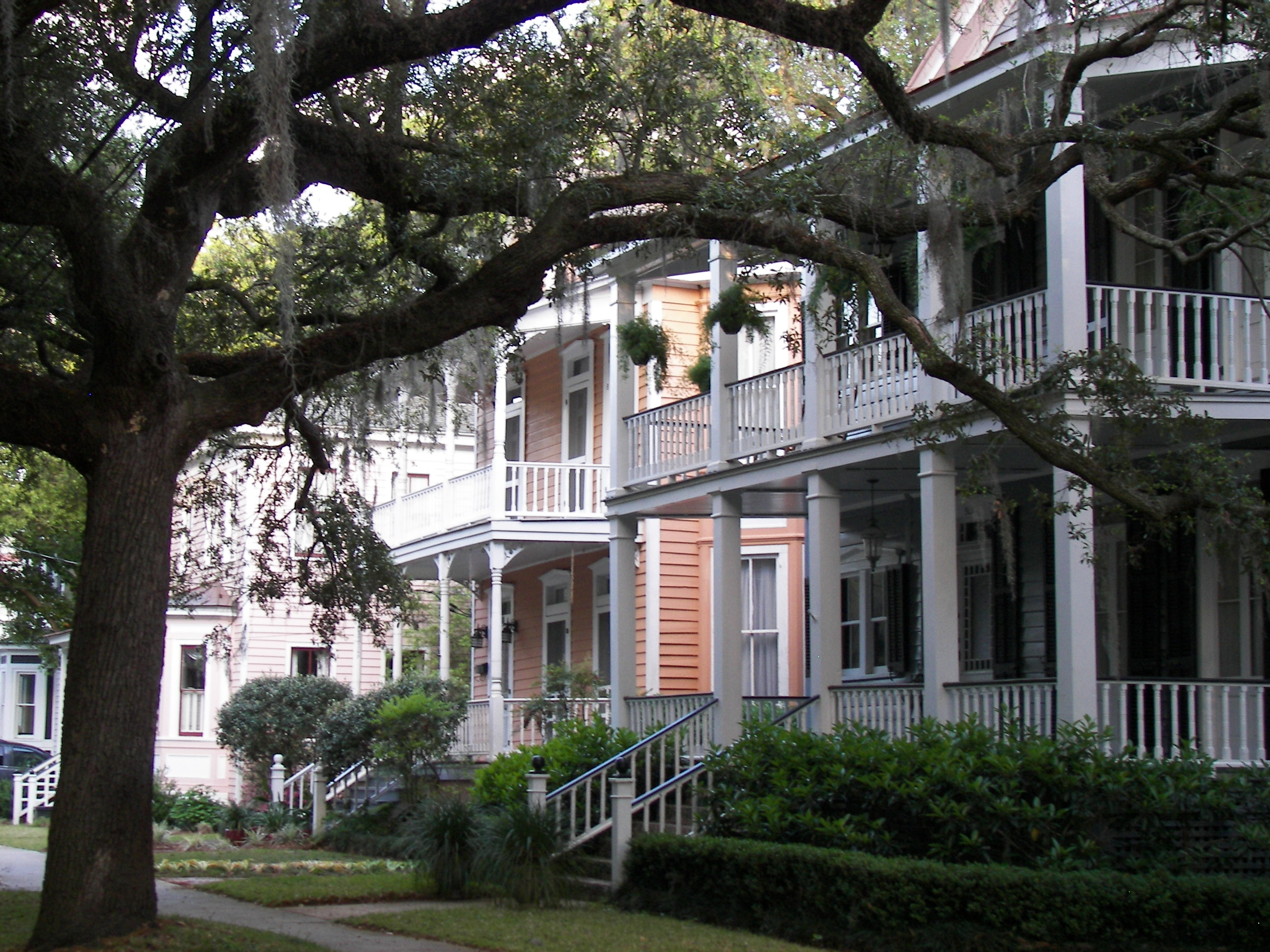 Craven Street, Beaufort, South Carolina, United States.